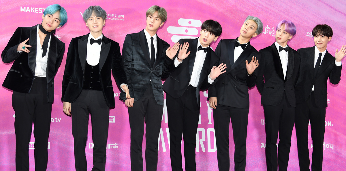 South Korean boy band BTS at the 2019 Seoul Music Awards on 15 January 2019